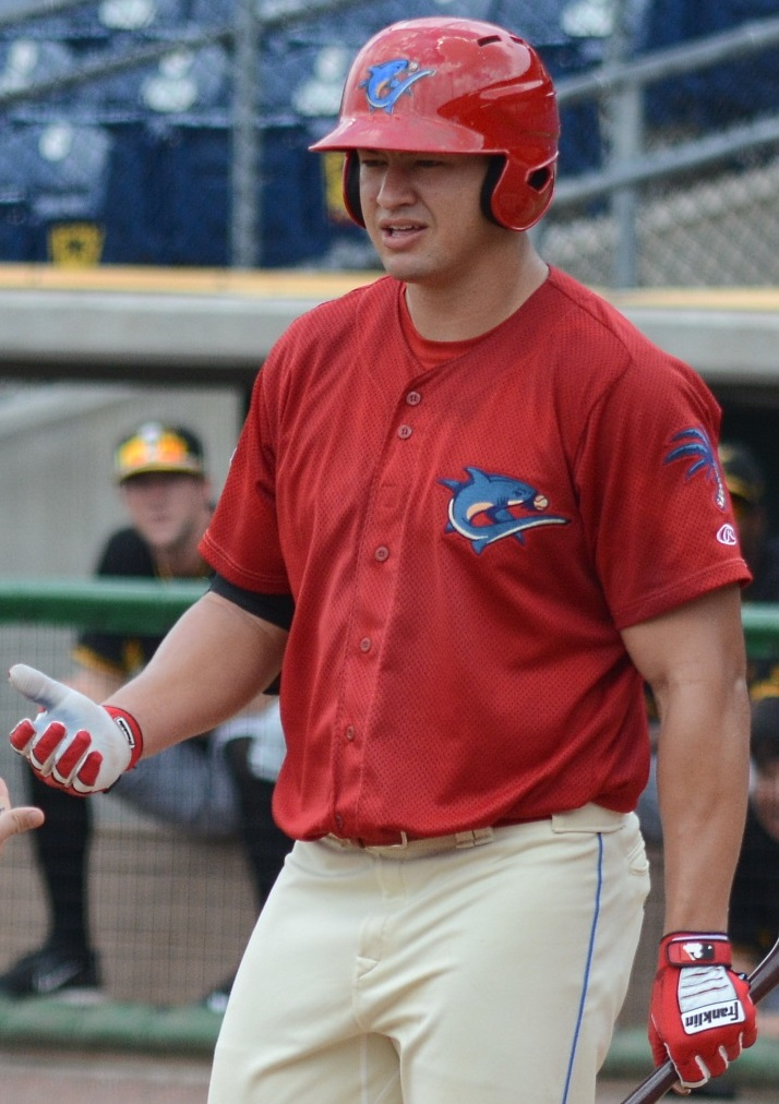 Clearwater Threshers outfielder Dylan Cozens (right) has a discussion with the home plate umpire after being ejected in the fourth inning of the game against Bradenton on July 26, 2015.